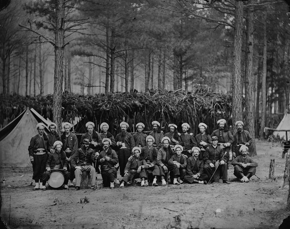 Photograph from the main eastern theater of war, the siege of Petersburg, June 1864-April 1865.